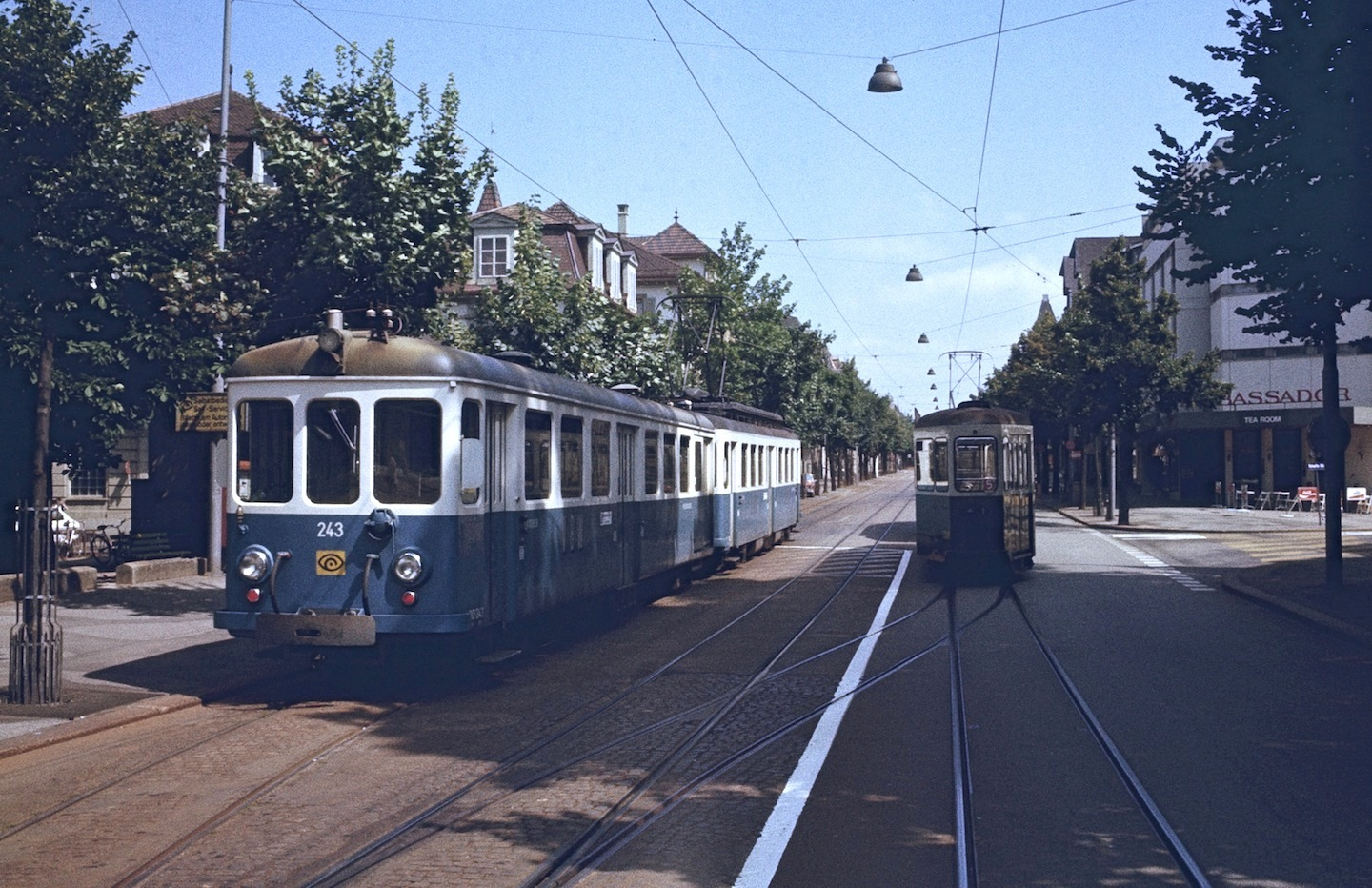 Bern in 1979: Looking southeast on Thunstrasse from Helvetiaplatz, as a trainset of the Verkehrsbetriebe Bern-Worb (Bern–Worb Transit Agency, or VBW) lays over on the terminal siding, while a tram on SVB line 5 passes by, southbound. Closest to the camera is VBW control trailer No. 243, a Swiss type BDt that was built in 1948 by SWS and was numbered 82 until 1974. The fleet number of the VBW motor unit coupled to car 243 was not recorded by the photographer. In 1997, the Bern–Worb line (now line G and part of RBS) was extended north from Helvetiaplatz, across the Kirchenfeldbrücke, to Zytglogge, and the terminal siding pictured here was taken out of use.